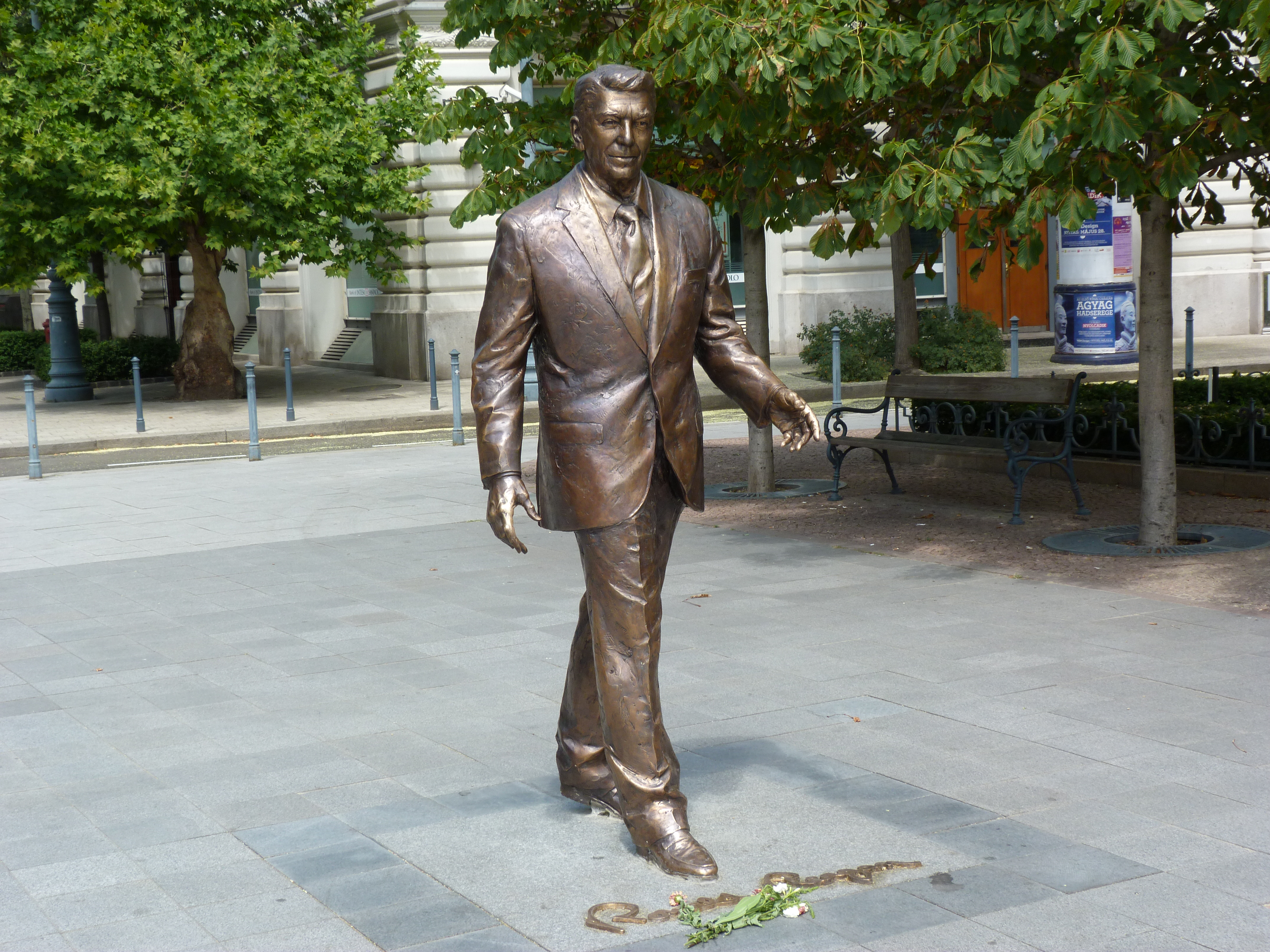 Ronald Reagan, 40th President of the United States of America. Downtown Budapest, the Szabadság (Liberty) tér, near the US Ambassy. The statue of Ronald Reagan was inaugurated on the 29th of June, 2011.